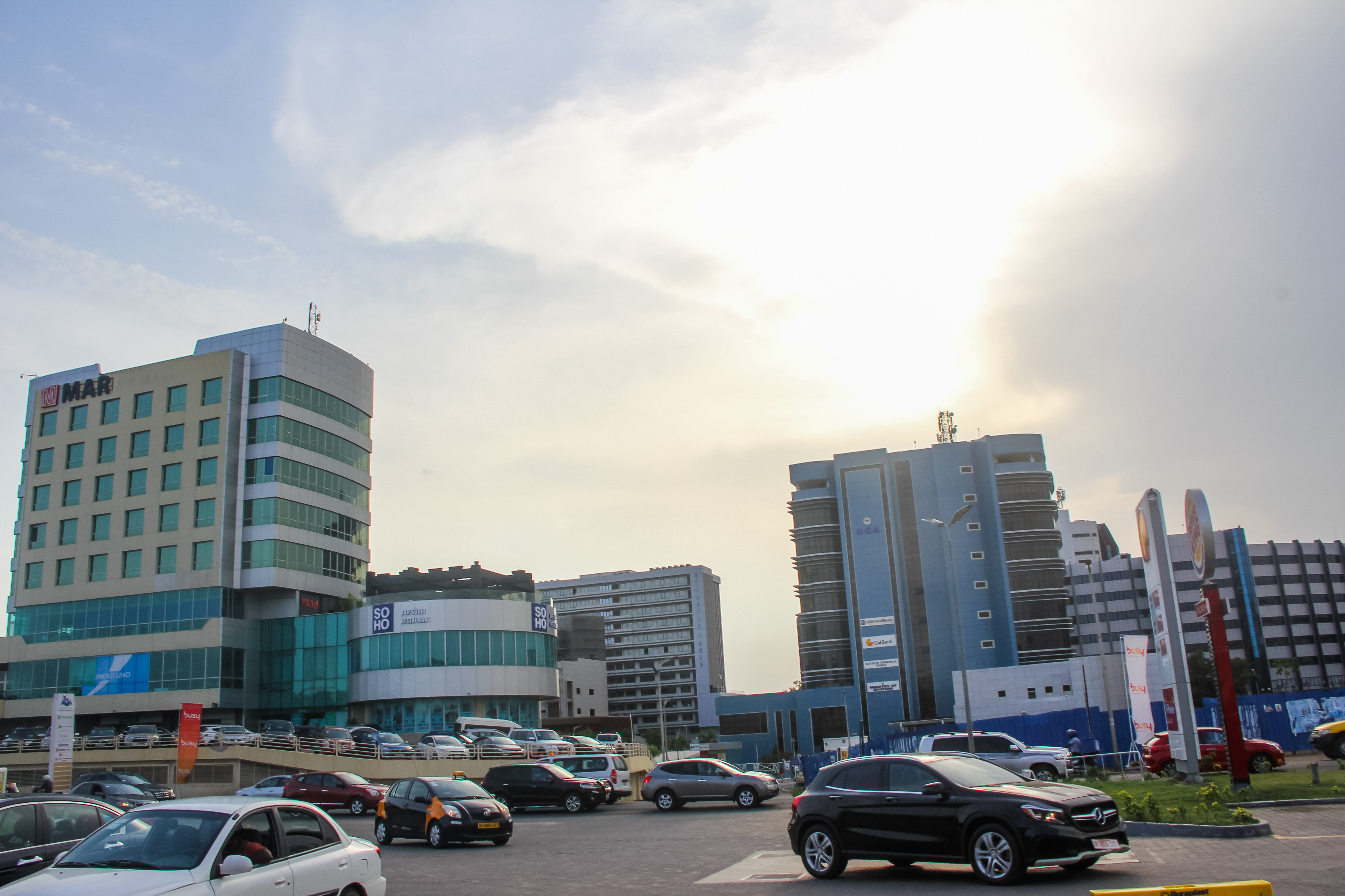 Accra, Ghana